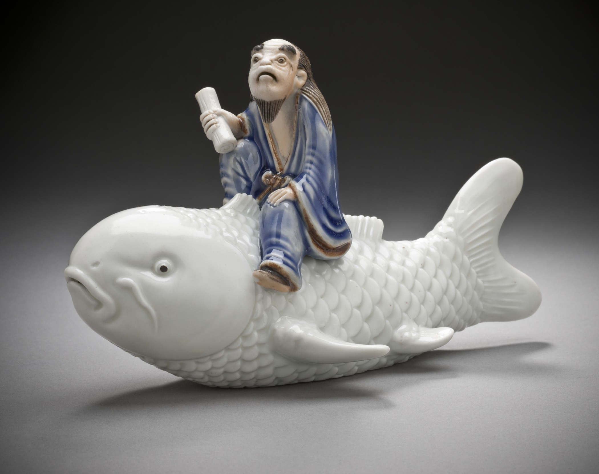 Japan, 19th century Sculpture Hirado ware; porcelain with clear glaze, blue and brown underglaze 3 7/8 x 6 3/8 x 3 1/8 in. (9.8 x 16.2 x 7.9 cm) Gift of Allan and Maxine Kurtzman (M.2004.216.4) Japanese Art